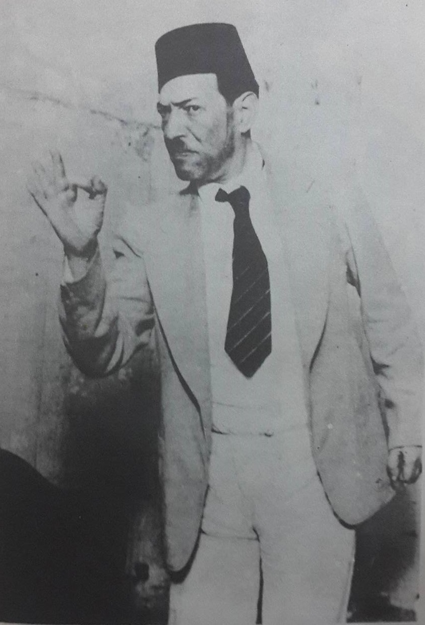 Naguib el-Rihani playing the role of "shahata Effendi" in a play entitled "Law kont hliwa" (If only i was handsome), which played in 1938.